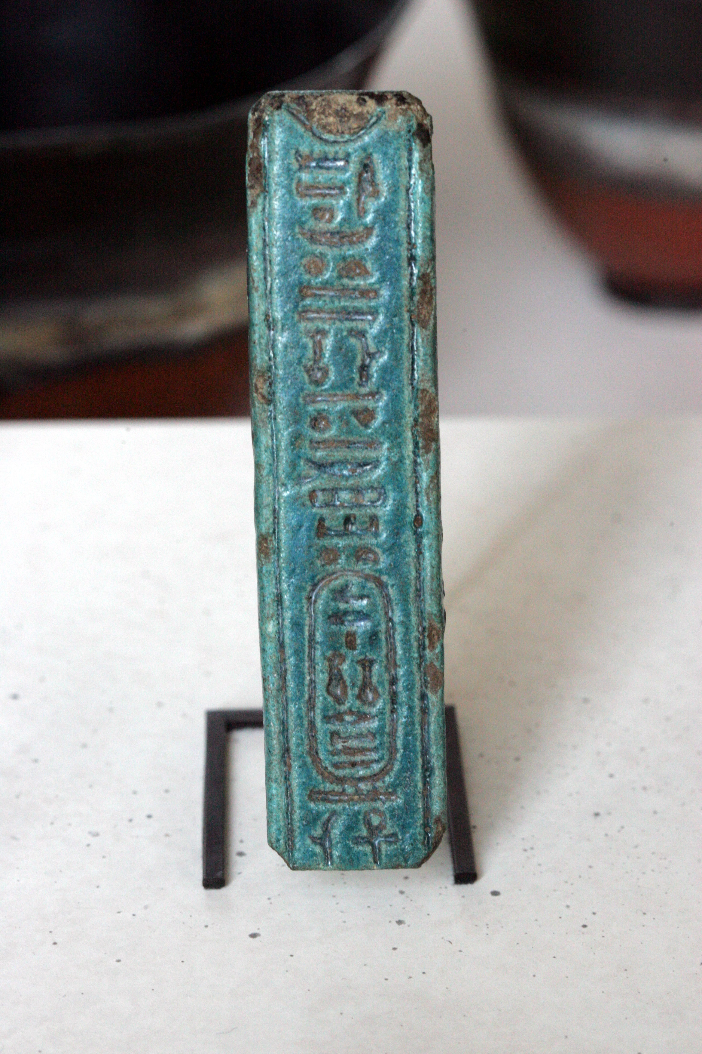 ArtistUnknownDescription Seal of lady Maletarat Circa 7th to 6th century BCE Siliceous faience Current location (Inventory)Louvre Museum Native nameMusée du LouvreLocationParisCoordinates48° 51′ 37″ N, 2° 20′ 15″ E Established1793Website control : Q19675 VIAF: 257711507 ISNI: 0000 0001 2260 177X ULAN: 500125189 LCCN: n80020283 NLA: 35912436 WorldCat Sully 1st floor - Section 26c La Nubie et le Soudan Escalier du Midi Display 1Accession numberE 10302ReferencesLouvre.frSource/PhotographerRama Seal of lady Maletarat Circa 7th to 6th century BCE Siliceous faience